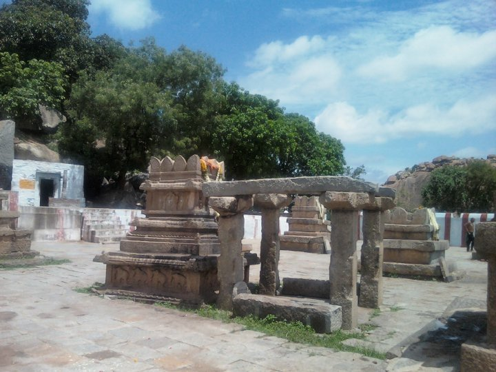 I have clicked this photo during my visit